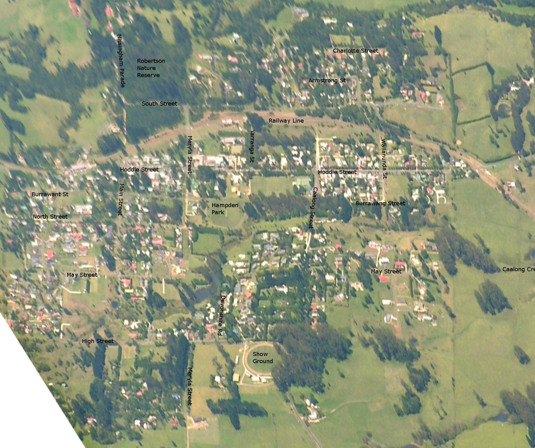 Map of Robertson NSW based on aerial photo, with street names